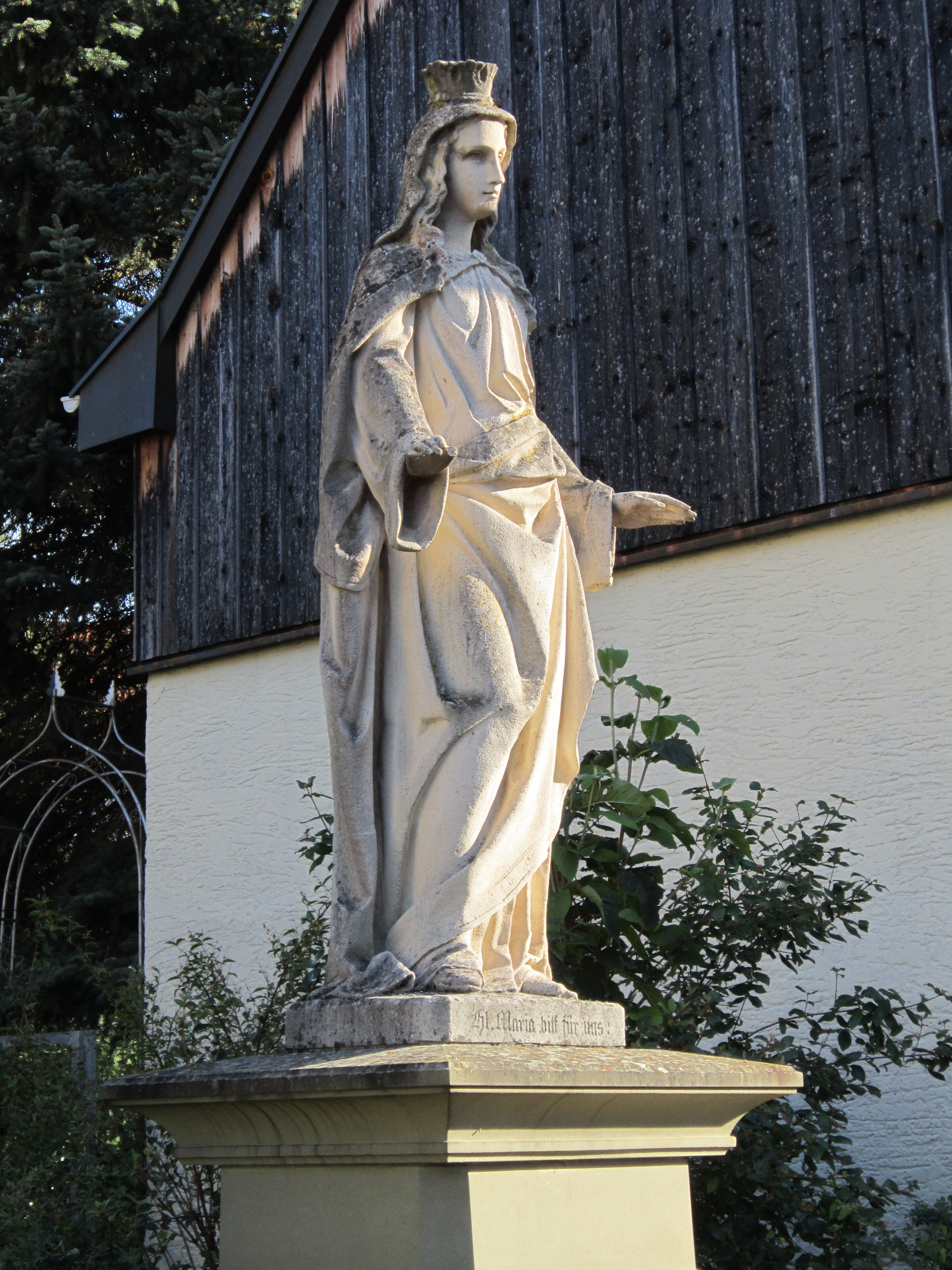 Holy Mary Statue in Garitz, a quarter of the German spa town Bad Kissingen in Lower Franconia (Bavaria). The statue is the last work made by Franconian sculptor Michael Arnold.